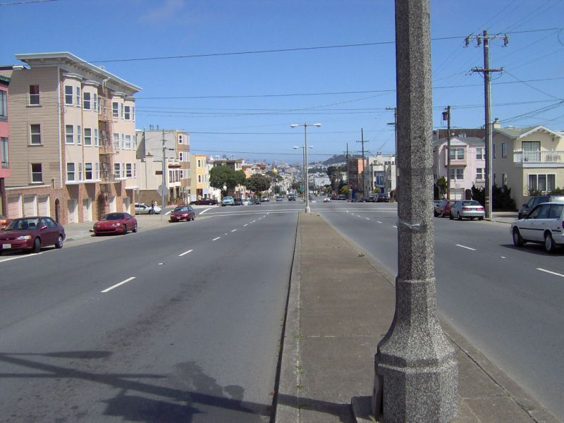 Looking east down Geary Boulevard from 36th Avenue. In use in: Richmond_District,_San_Francisco,_California Geary_Boulevard